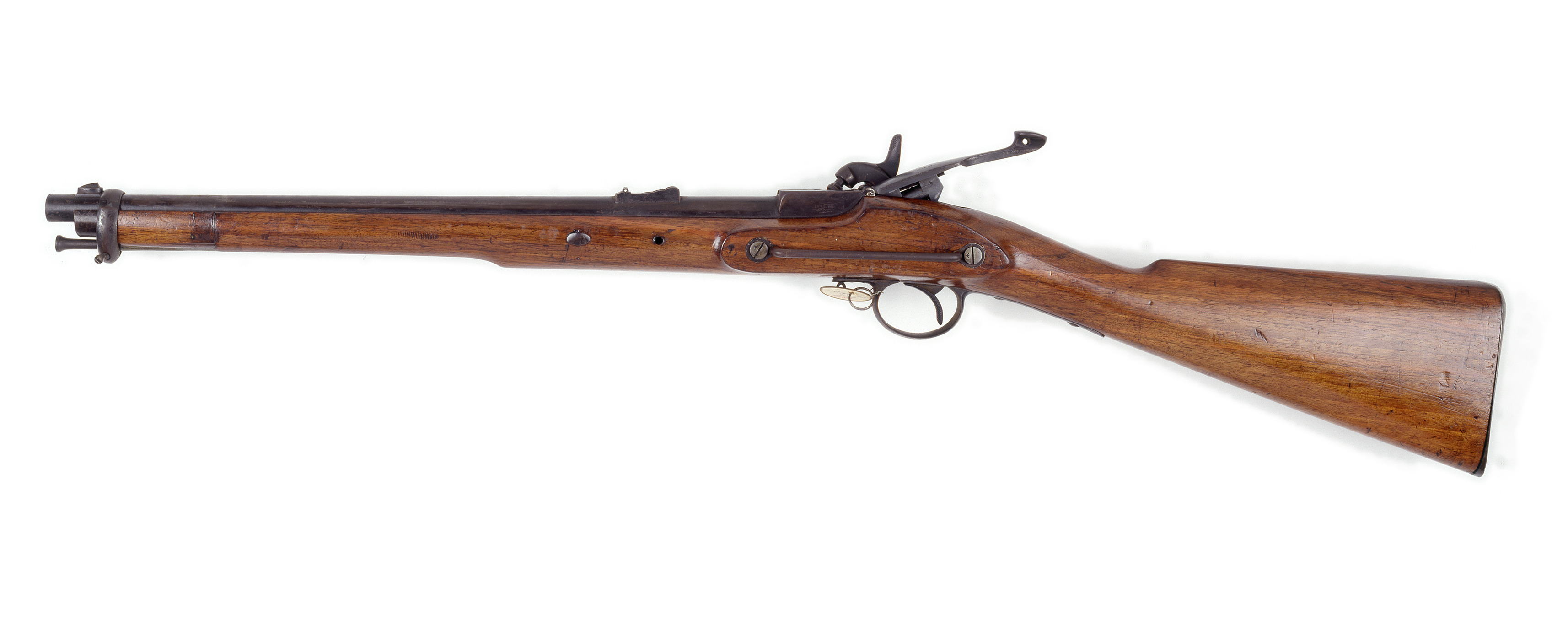 Breech-loading, rifled, .450in calibre. War Department production piece marked 'Enfield 1865' on the lock, possibly bought as a specimen by the Secretary of State for India (although not marked as such). Westley Richards' carbine was one of several designs of percussion capping breechloader considered for issue to British cavalry c.1855-1860, and which later saw limited production and use. Ramrod/clearing rod present. Backsight leaves have been broken off.